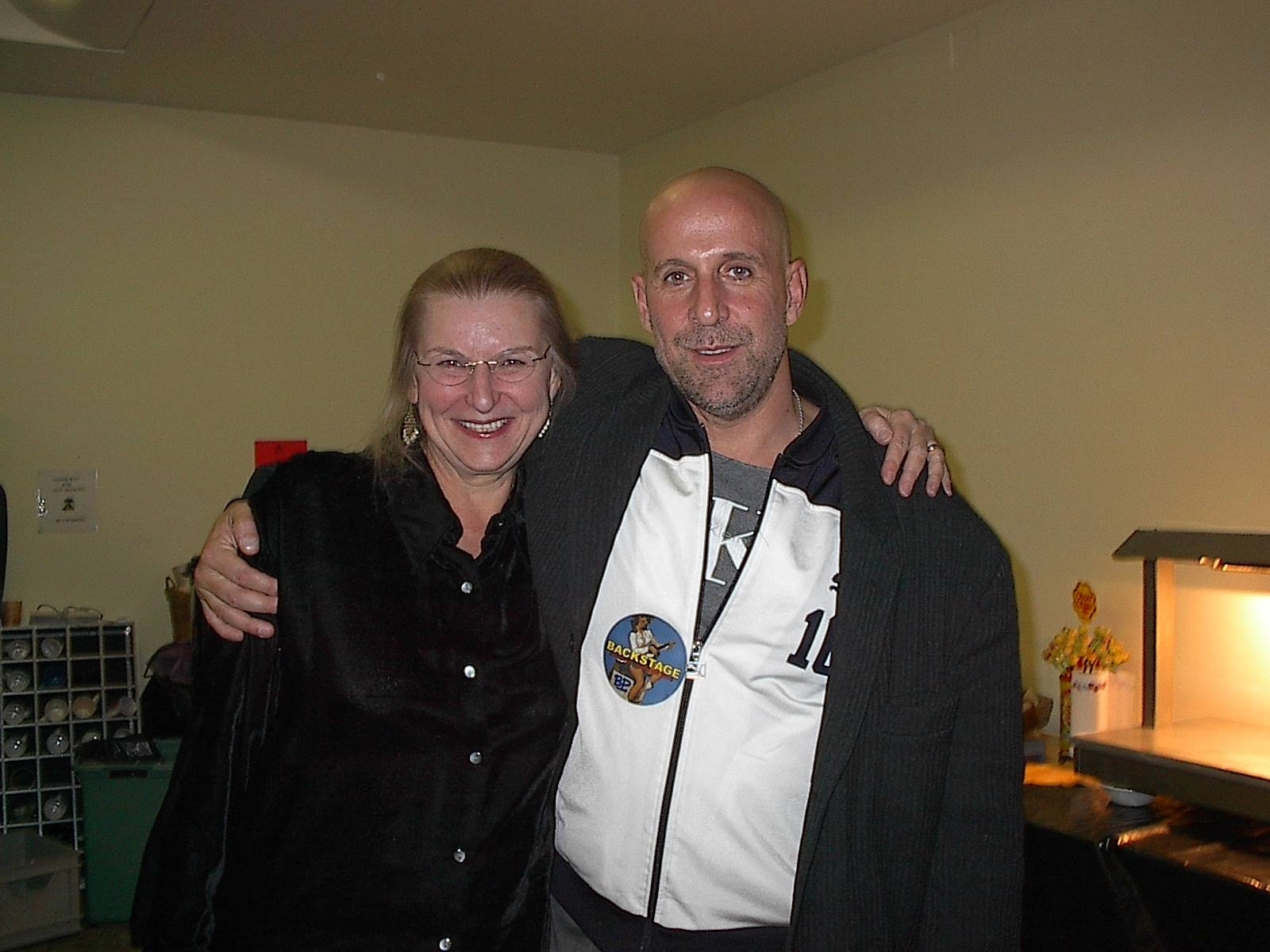 American poet Hedwig Gorski with Swedish actor Peter Stormare meet backstage at Bob Dylan's concert in Prague, Czech Republik, Oct. 2003.